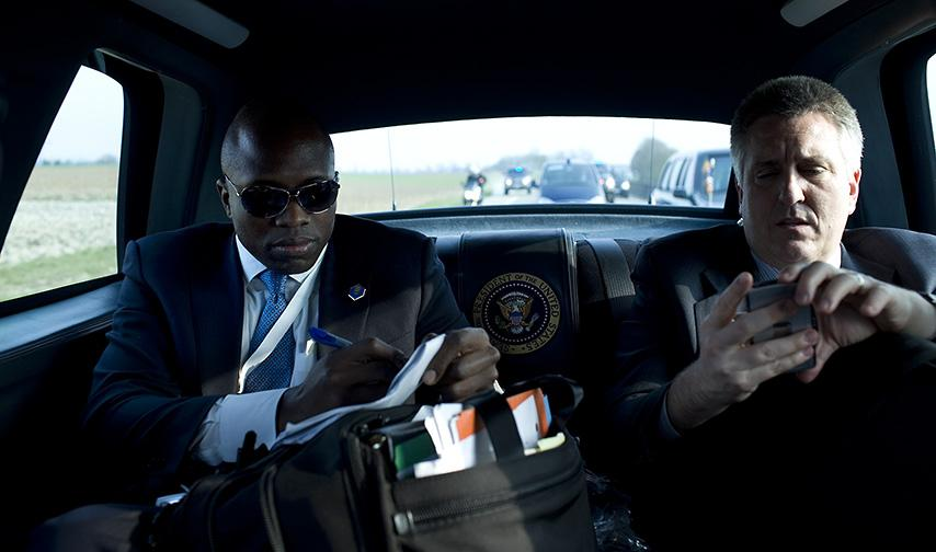 President Barack Obama's personal aide Reggie Love, left, and White House physician Dr. Jeffrey Kuhlman check their notes as they travel in the Presidential motorcade April 4, 2009 outside of Strasbourg, France (NATO Summit).